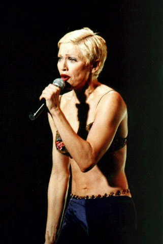 Photo taken during one of the concerts in 1993